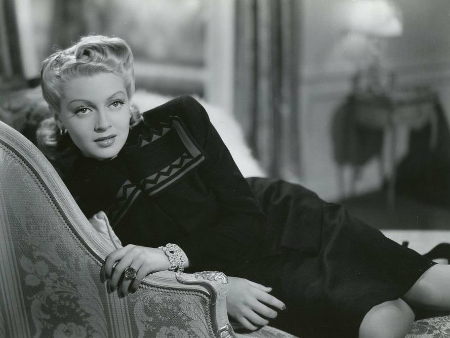 Lana Turner in Ziegfeld Girl